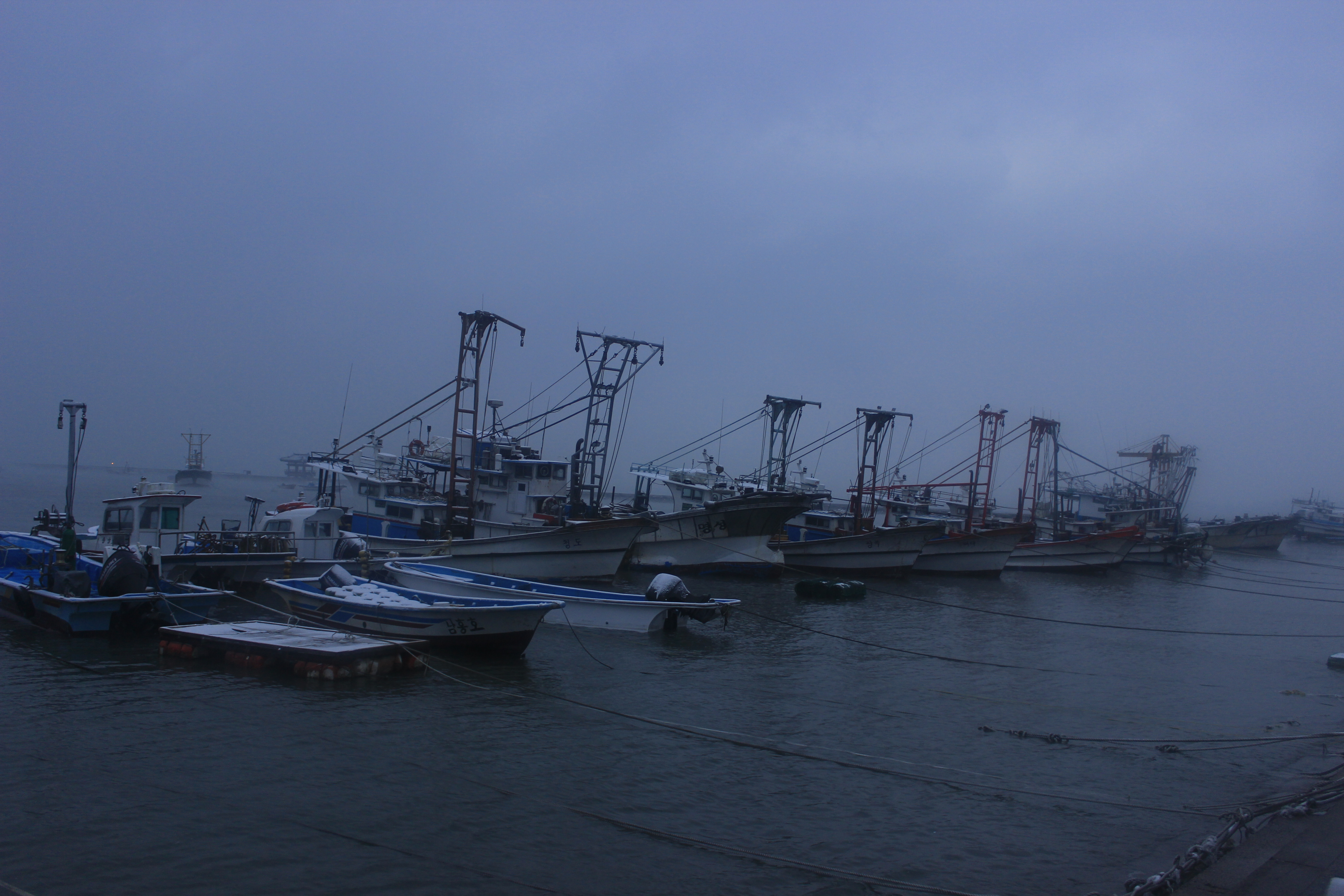 Gungpyeong Port